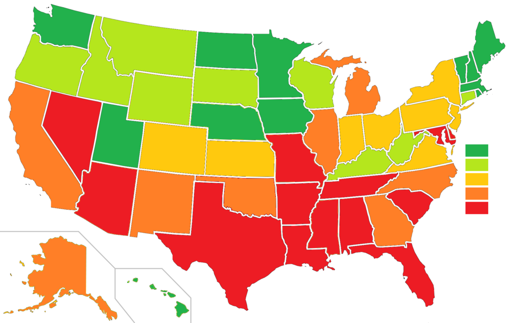 United States Peace Index Map-- The more green states are more peaceful while the redder states are less so.